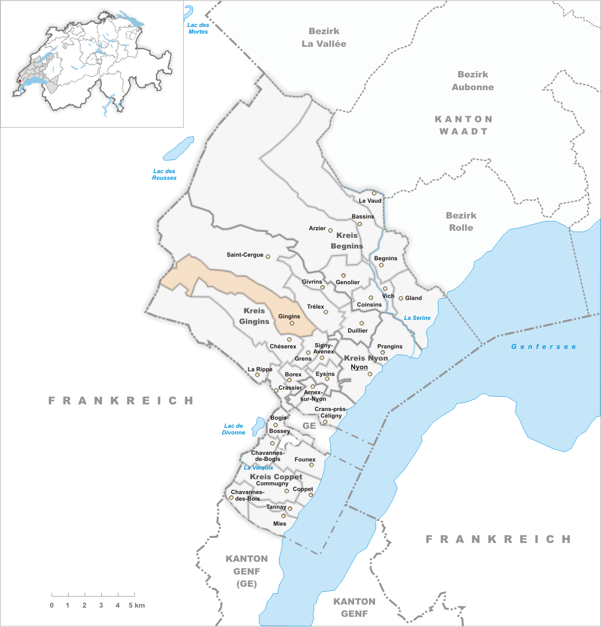 Municipality Gingins